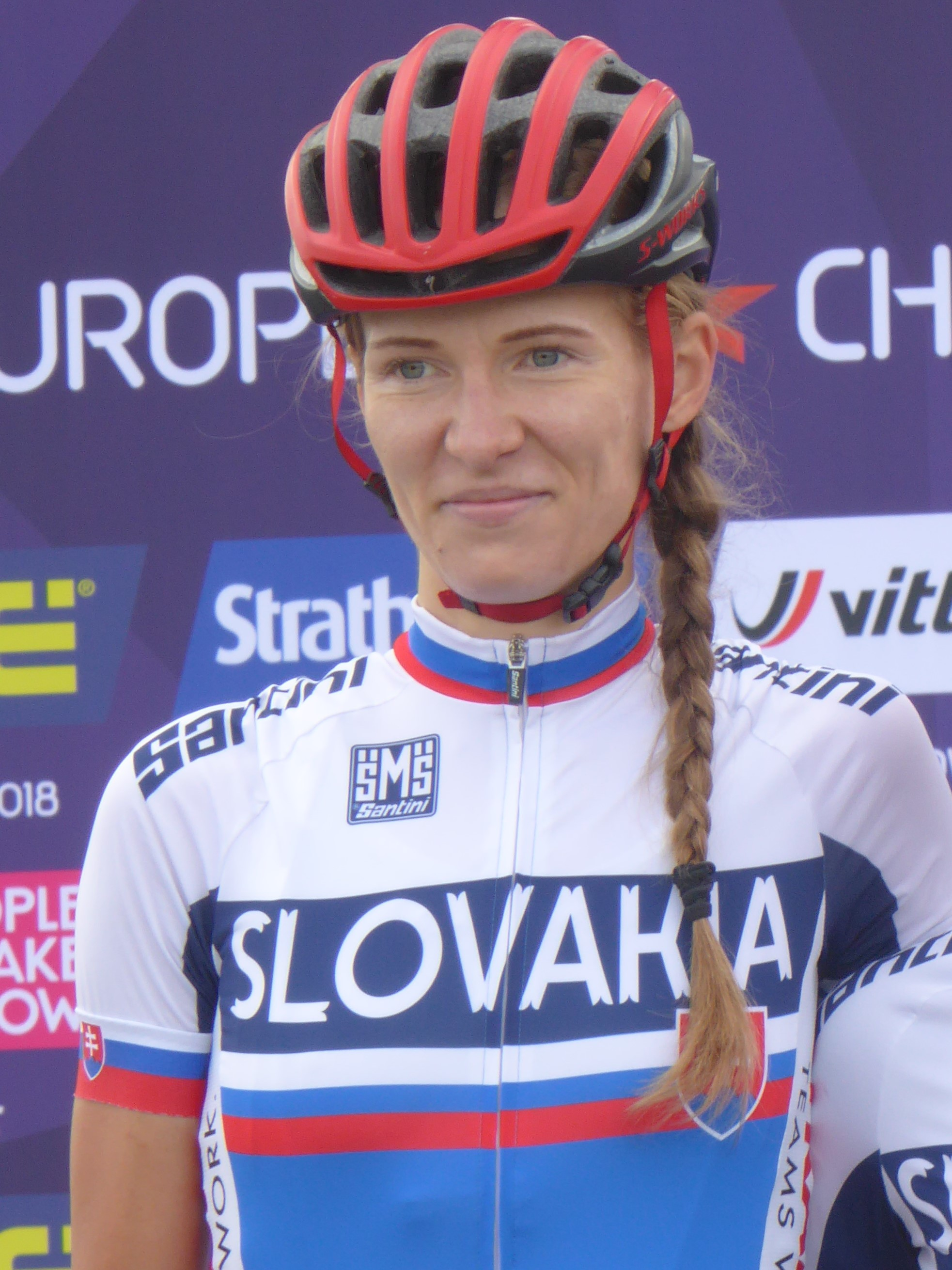 Tatiana Jaseková (Slovakia), prior to the women's road race at the 2018 UEC European Road Cycling Championships in Glasgow.